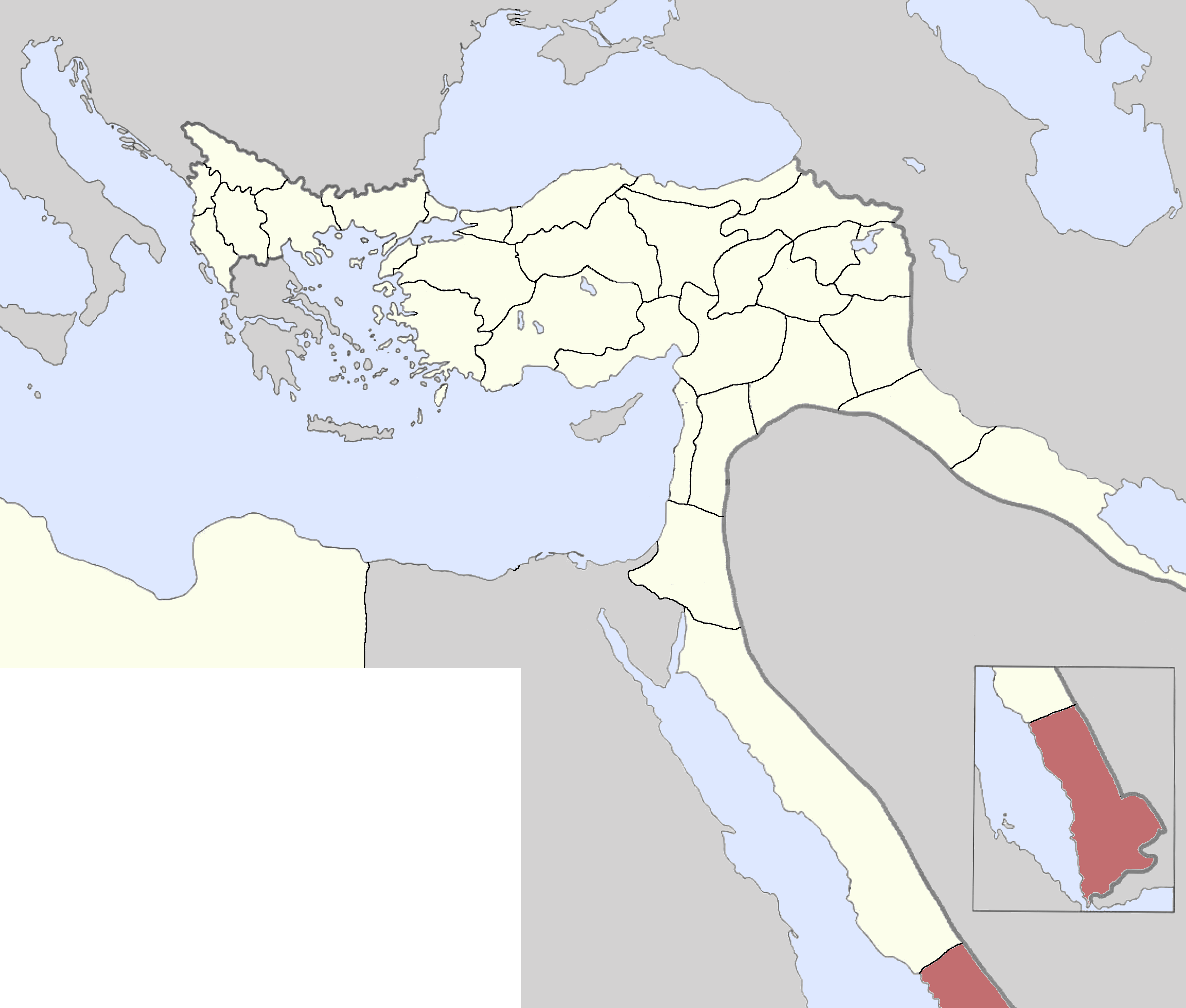 XY Vilayet, Ottoman Empire (1900). Source: Empire, Islam, and Politics of Difference: Ottoman Rule in Yemen, 1849-1919 at Google Books By Thomas Kuehn